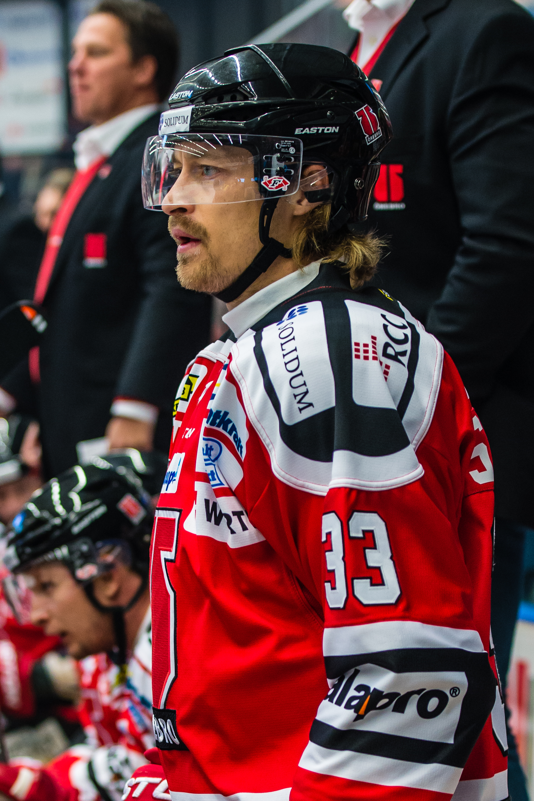 Daniel Sondell playing for Örebro HK in SHL (Sweden's highest league) against MODO Hockey in Behrn Arena 2013-10-05.